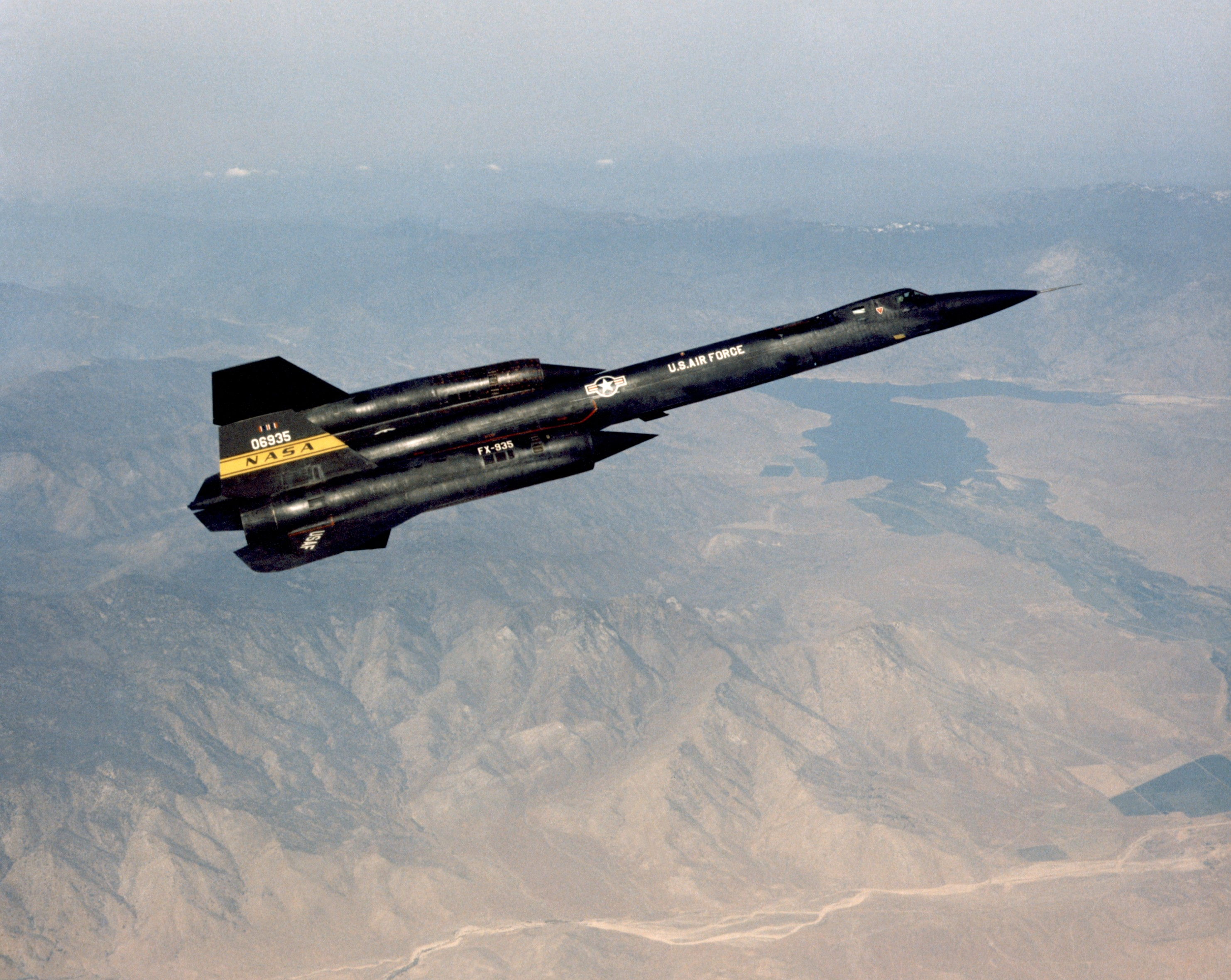 YF-12A #06935 in flight.